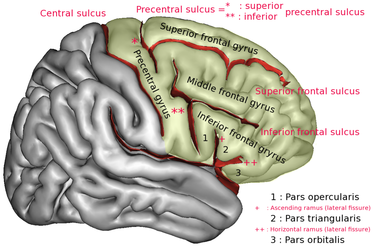 Frontal lobe, gyri and sulci